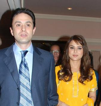 Indian businessman Ness Wadia with actress Preity Zinta at the Giants Day Awards.